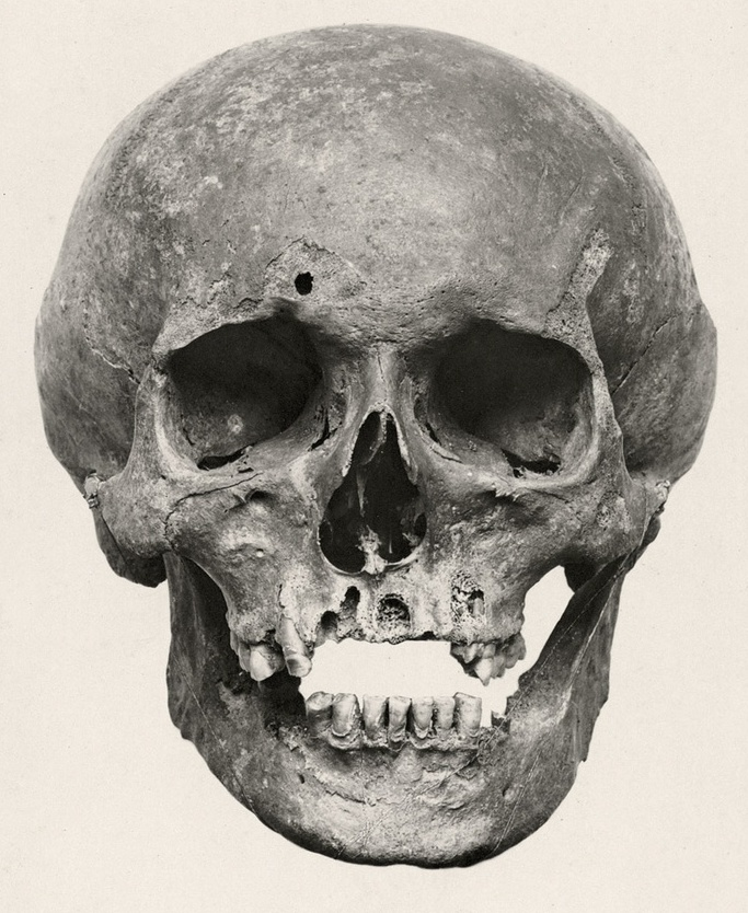 Skull of the German philosopher and mathematician Gottfried Wilhelm Leibniz (1646-1716). Photograph taken by Georg Alpers junior in 1900 to 1906 when the grave in Hannover was opened. Provenance: The estate of Ernst August von Hannover, 3rd Duke of Cumberland. The photograph an a second one with a side view had been offered in 2011 by Galerie Bassenge in Berlin for 900 € ...